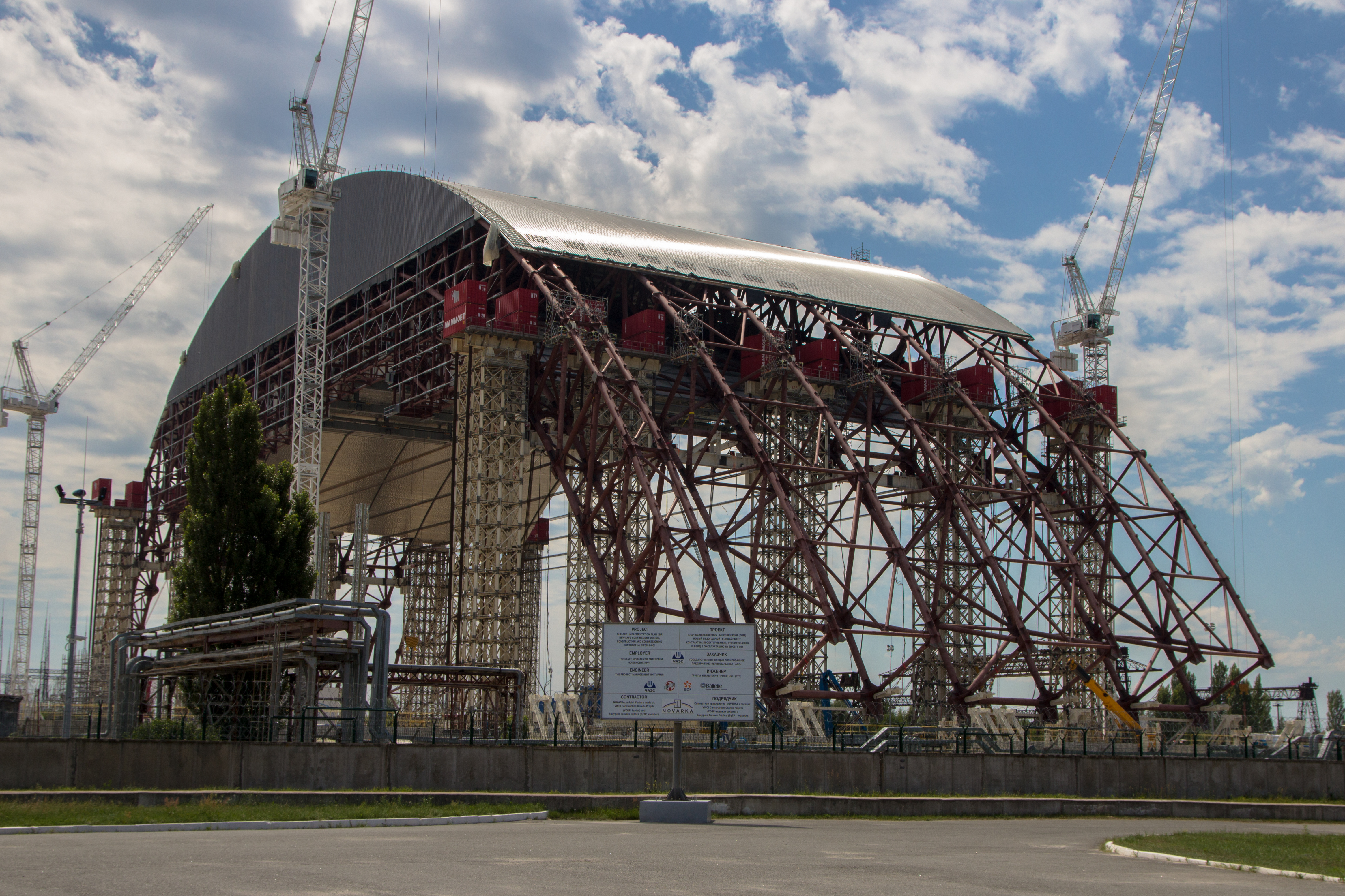 Chernobyl Nuclear Power Plant 2013